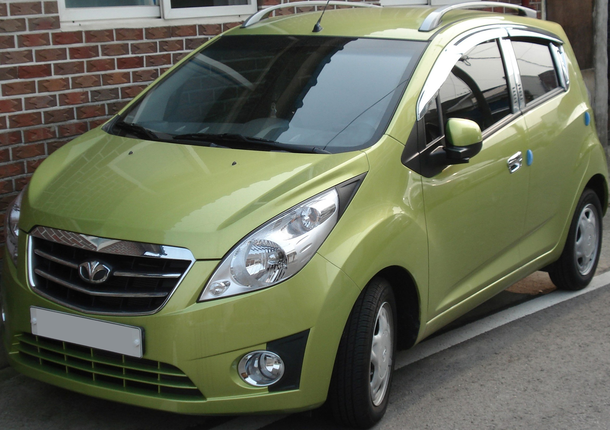 Daewoo Matiz Creative